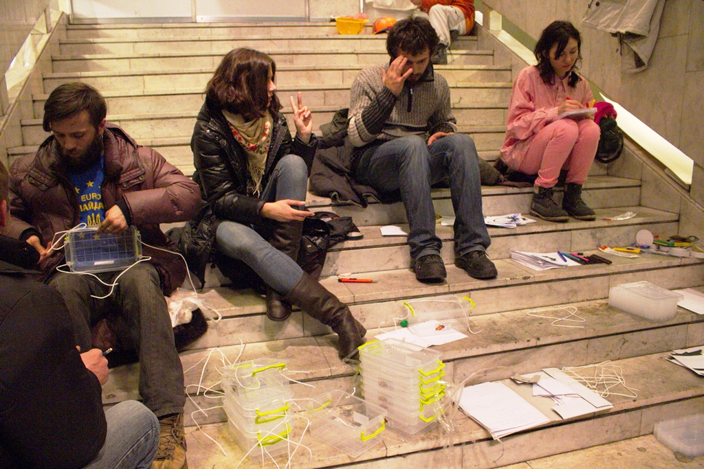 Producing mail-boxes